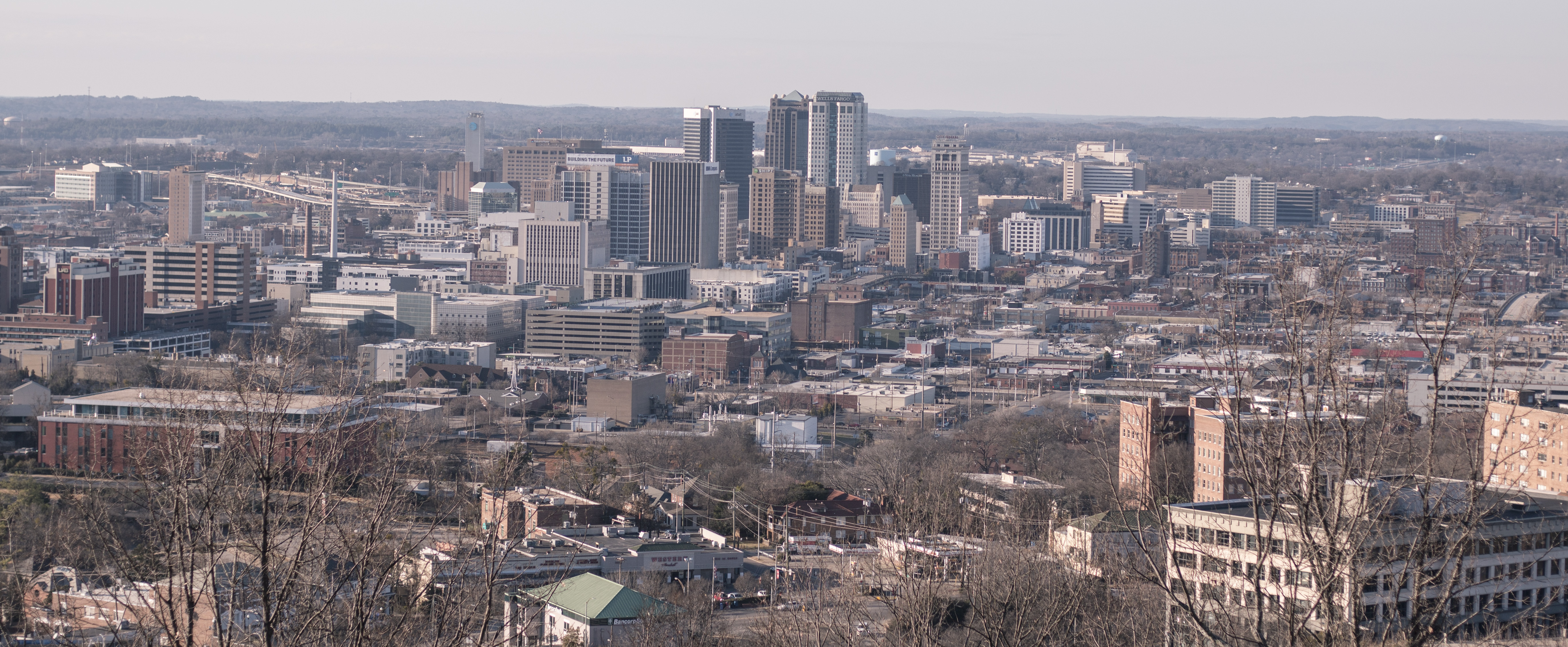 View of Downtown, City of Birmingham Alabama